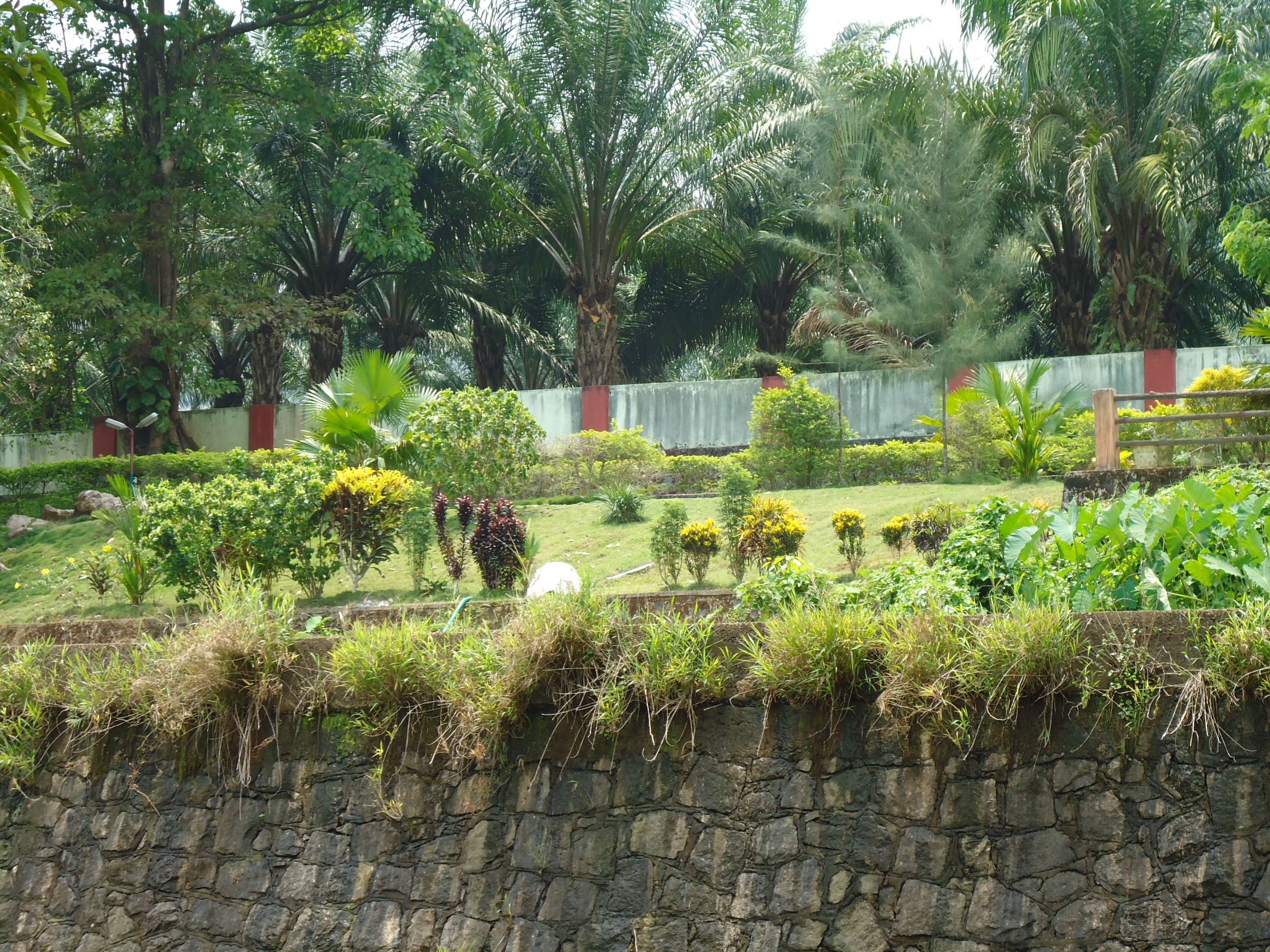 Ezhattumugham Prakrithigramam Garden